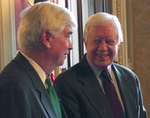 Senator Chris Dodd, who chairs the Senate Subcommittee on Western Hemisphere, Peace Corps, and Narcotics Affairs, hosted a bipartisan members meeting with former President Jimmy Carter, giving President Carter the opportunity to brief members of the Senate and the House of Representatives on his recent trip to Cuba.